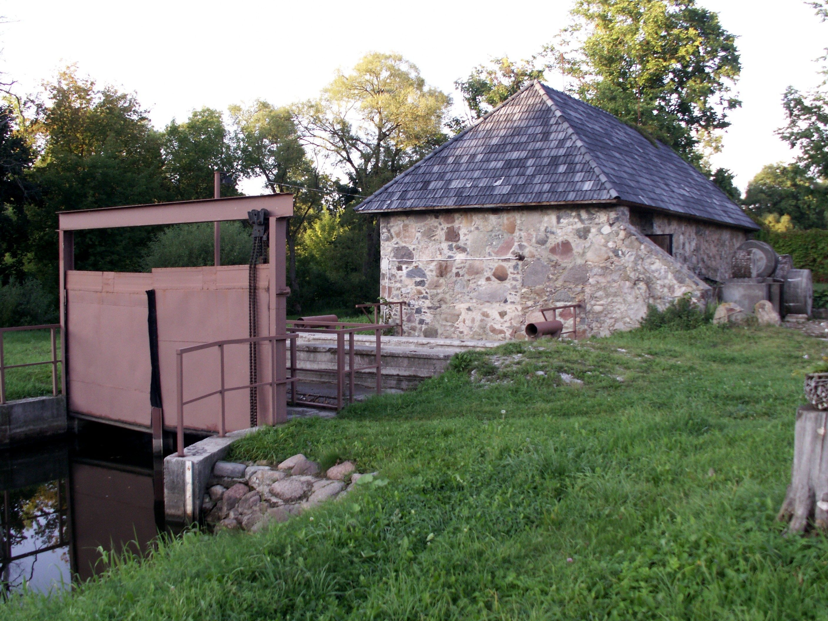 Kairiškiai water power station, Akmenė district, Lithuania